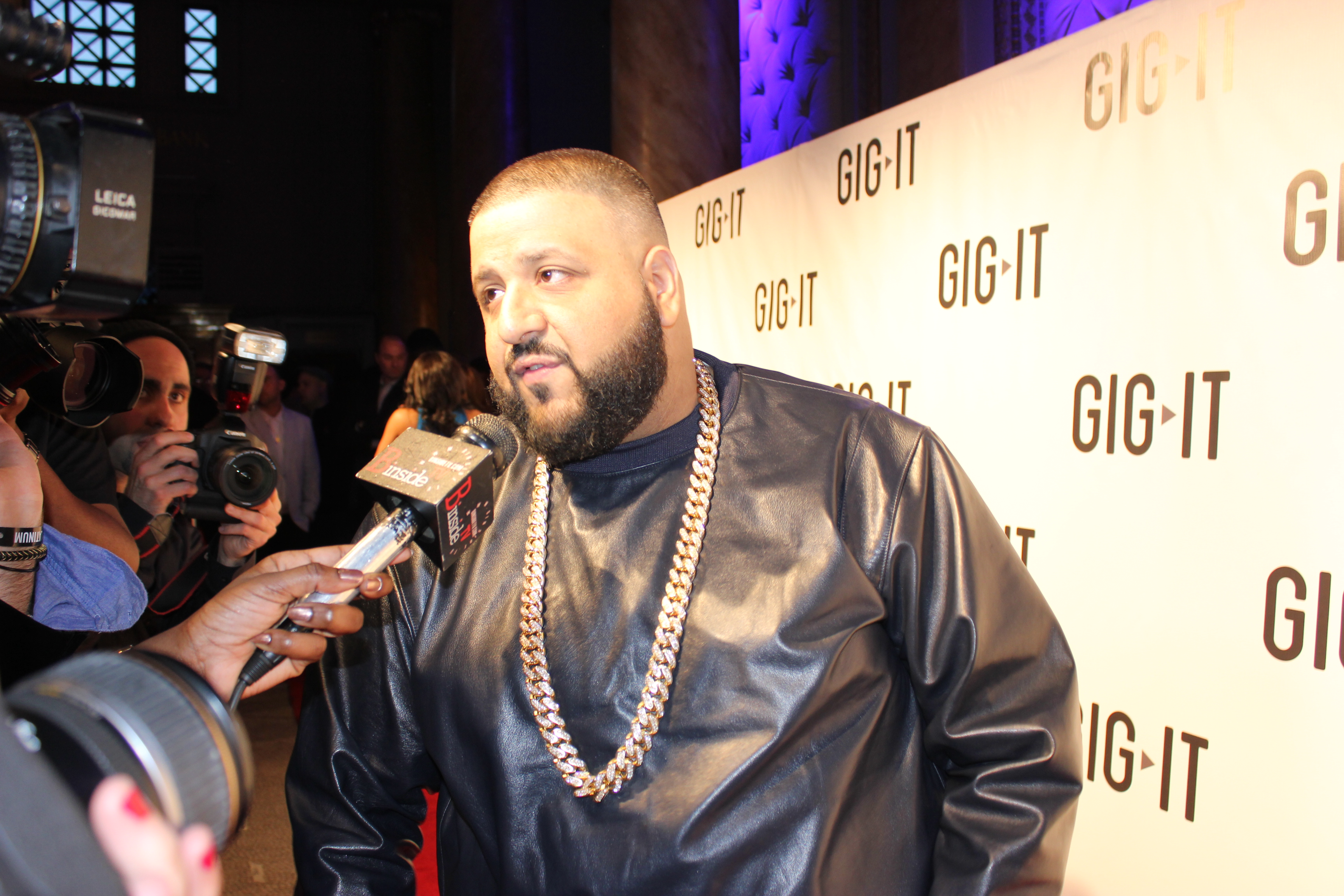 DJ Khaled at the launch of Gig-It on April 29, 2012.